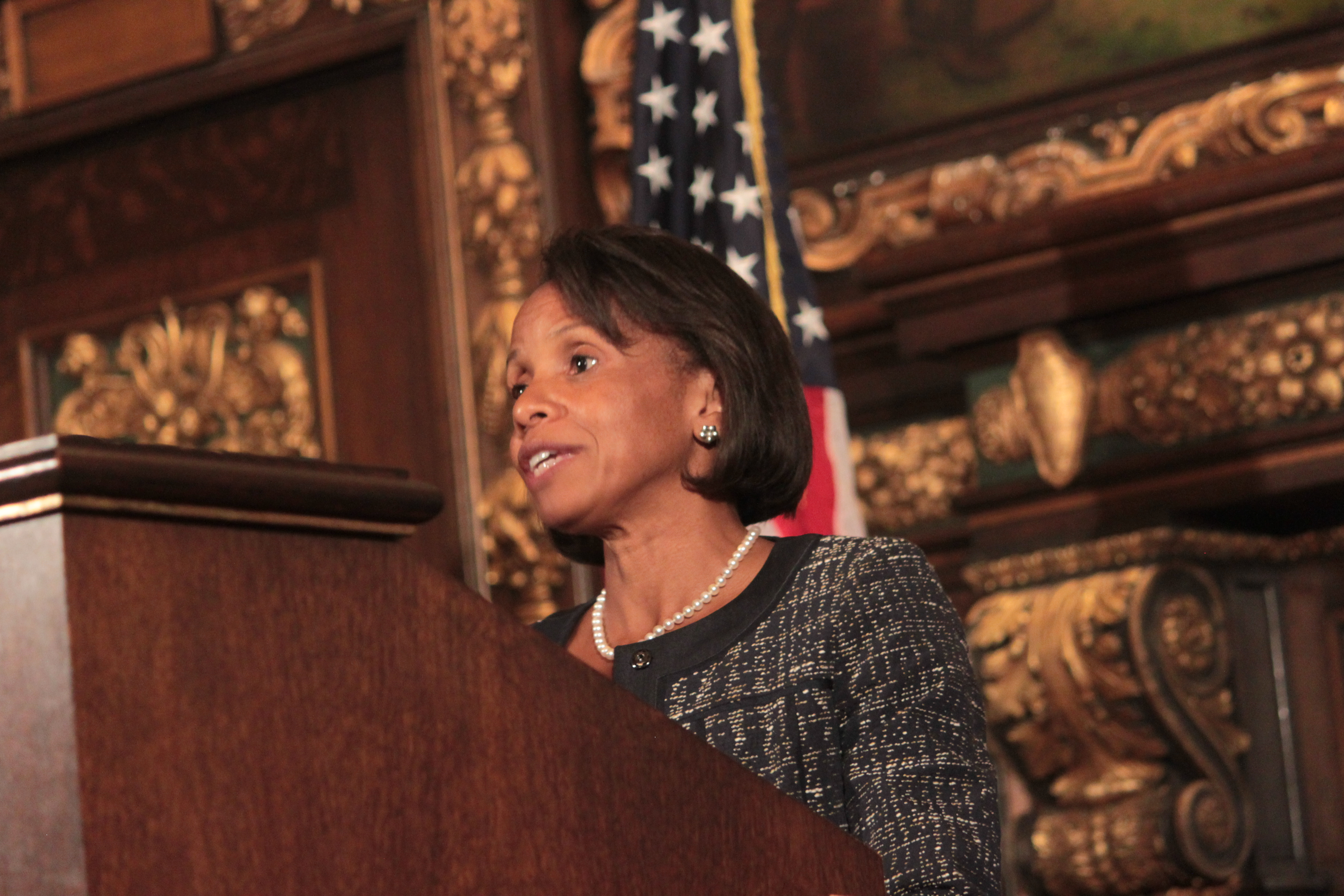 Associate Justice Wilhelmina Wright of the Minnesota Supreme Court